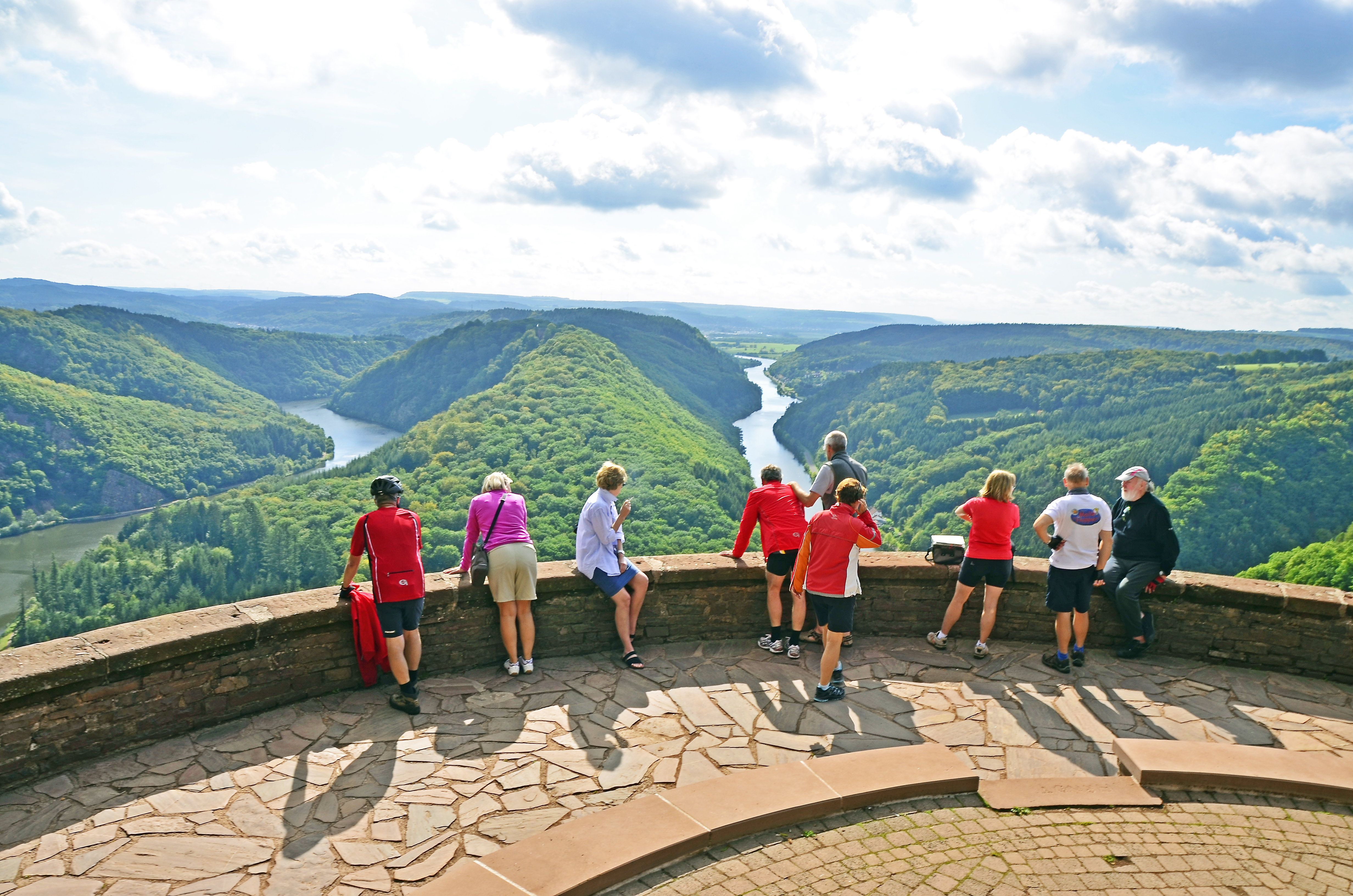 River Saar at Cloef near Orscholz - Visitors Point (Germany)